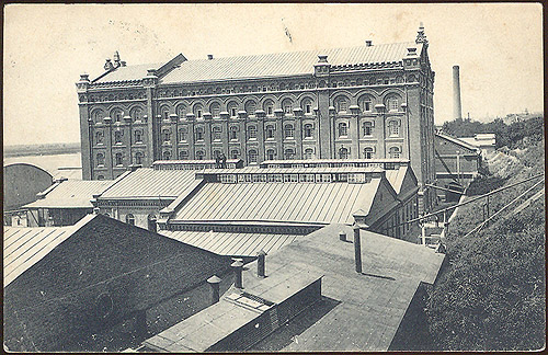 Pramonov's Mill before 1917